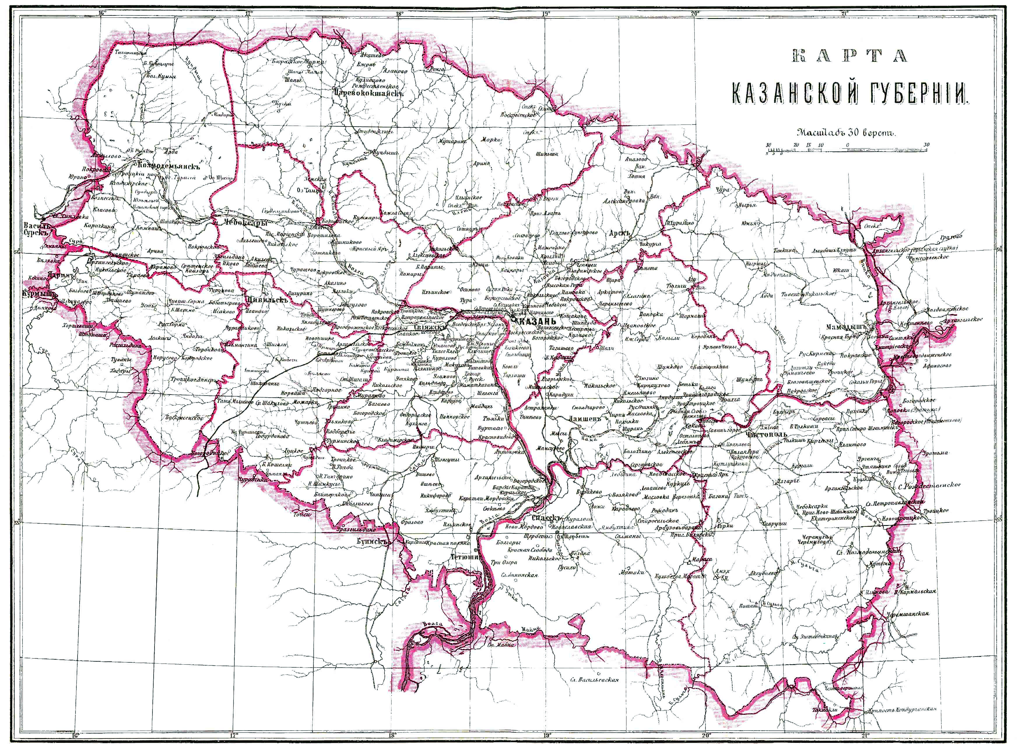 Illustration from Brockhaus and Efron Encyclopedic Dictionary (1890—1907)